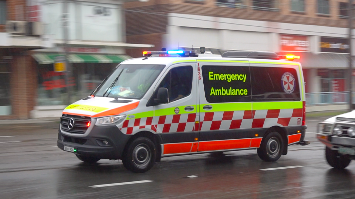 New South Wales Ambulance 636 responding to a job through Sydney's South